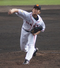 Ryuji Ichioka